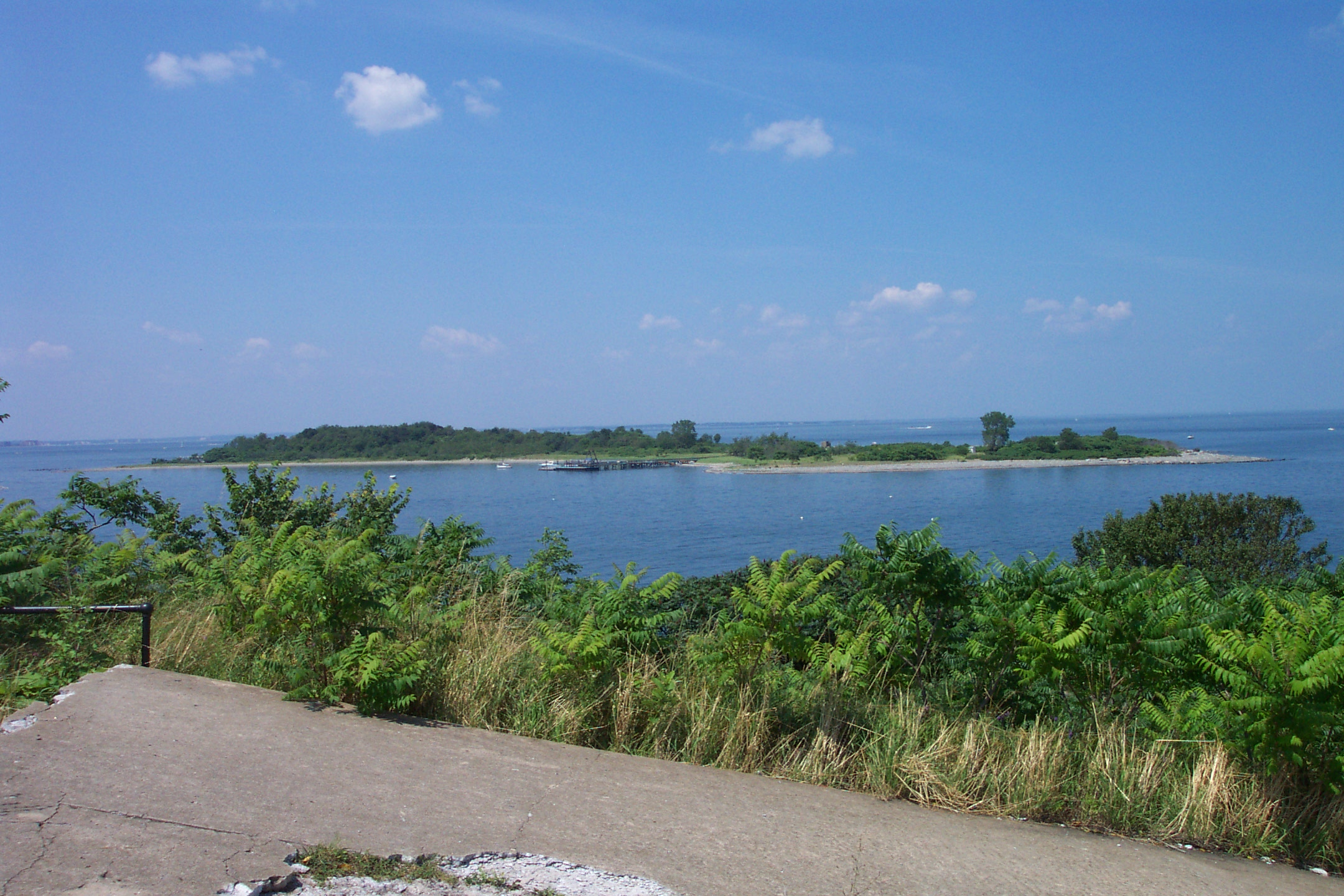 Lovells Island in Boston Harbor as viewed from Fort Warren on Georges Island. For more information see the Wikipedia article Lovells Island.